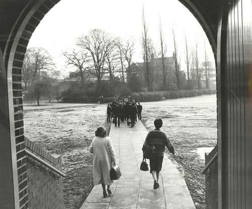 The first path linking the main school to the former convent site, 1980.